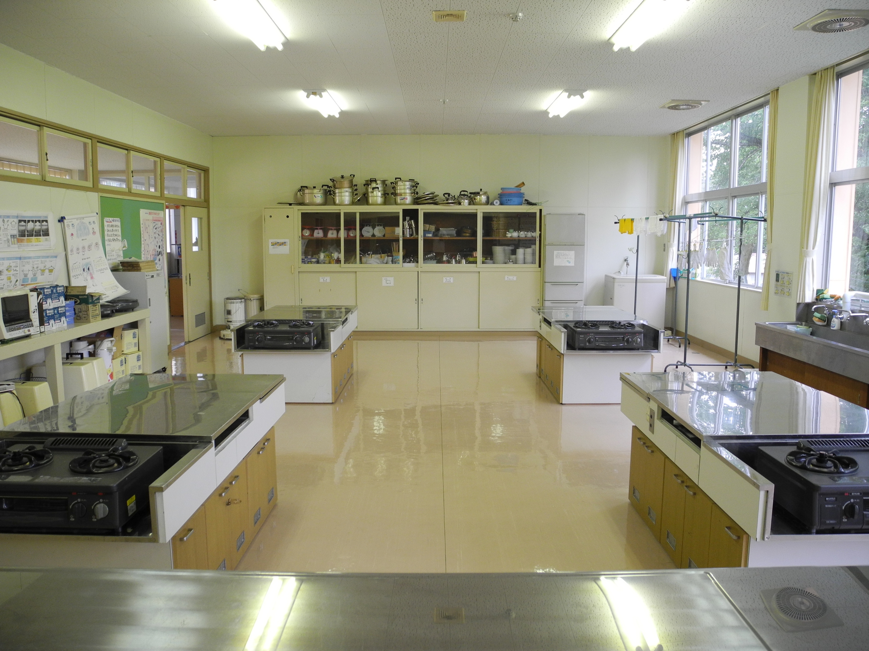 Kitchen (cooking classroom) on the 2nd floor of Hitane Elementary School. Shimo-Hitane, Chokai, Yurihonjo, Akita, Japan.